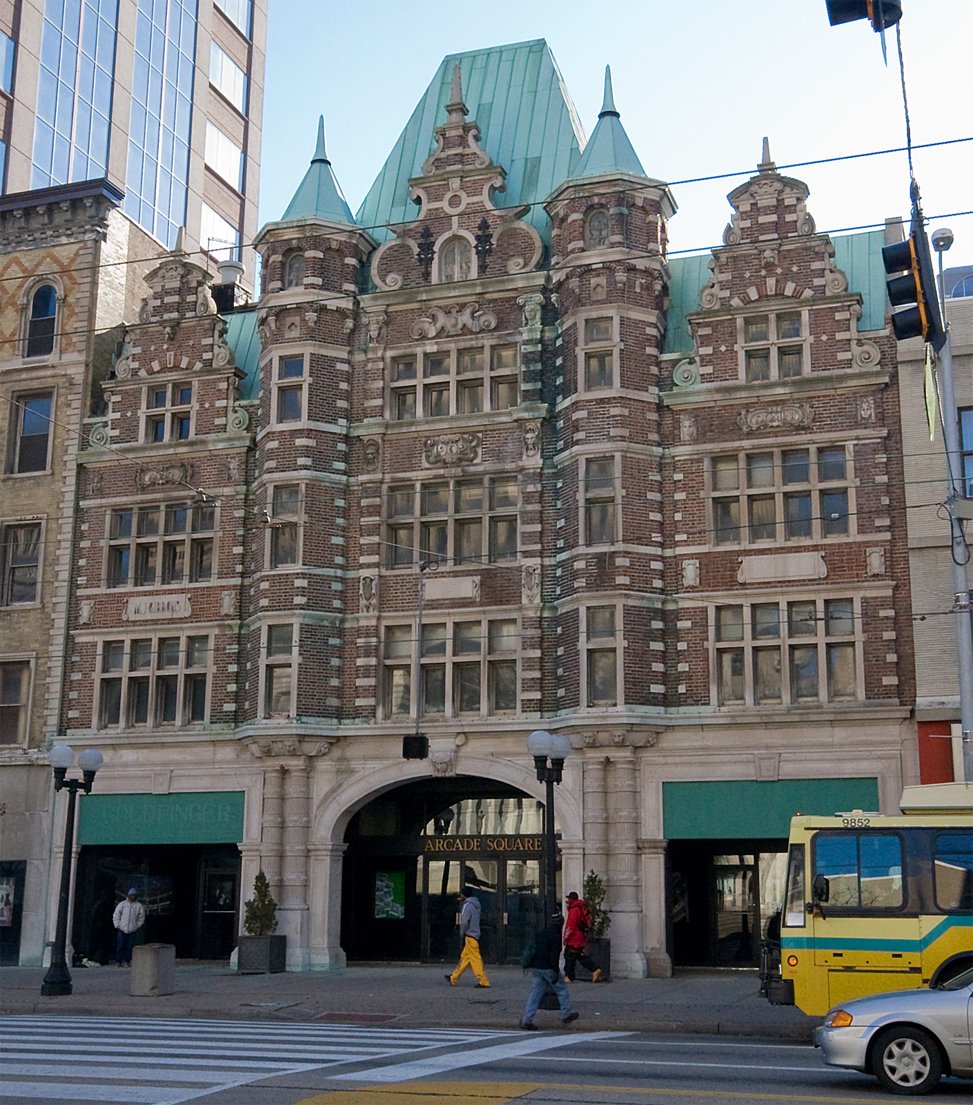 Dayton Arcade - Third St. entrance. Photo by Greg Hume